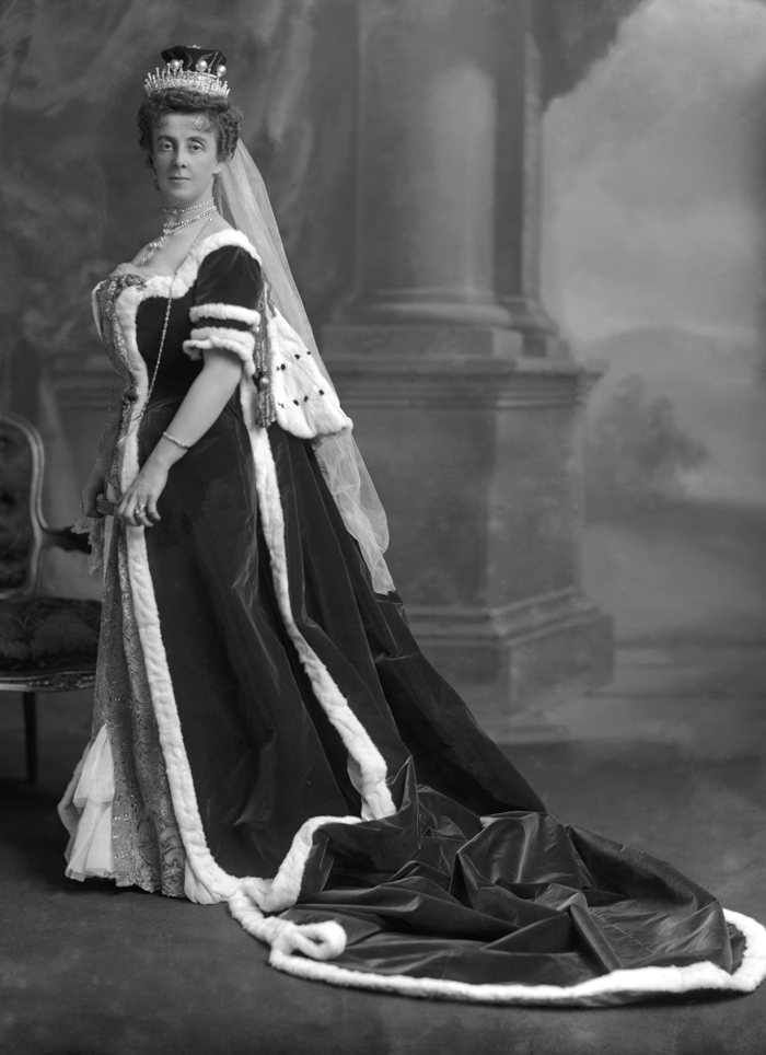 Evelyn Caroline, Baroness Newton (1859-1931), née Davenport, photographed on 24 June 1902.